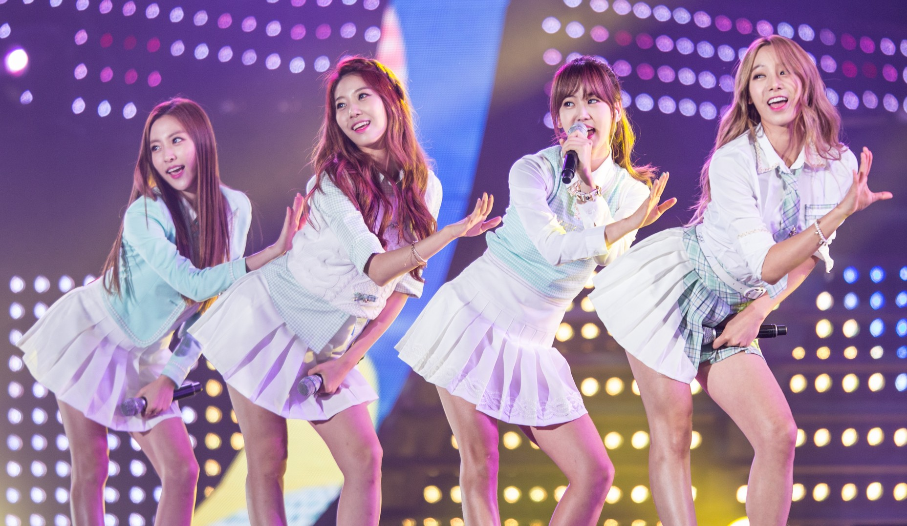 BESTie at Incheon Hallyu Tour Concert, 17 September 2014